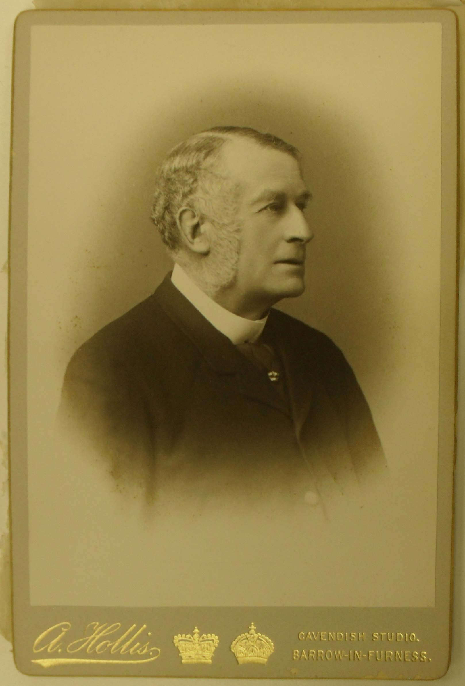 Edward Wadham, Consulting Civil and Mining Engineer